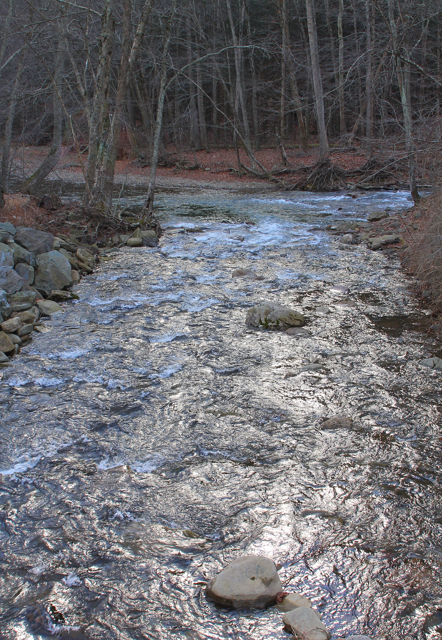 Elk Run looking downstream at its mouth in Elk Grove. West Branch Fishing Creek is in the background.